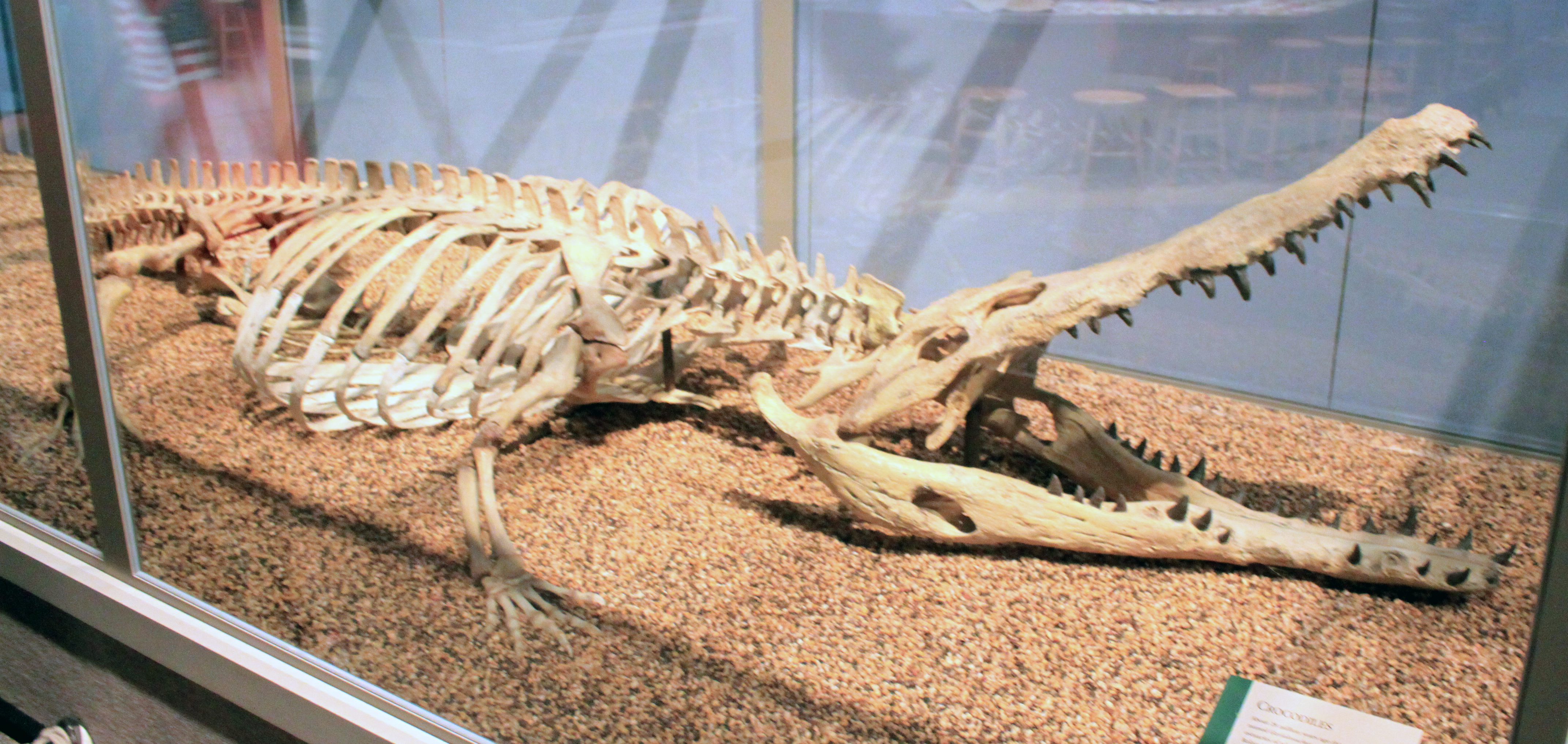 Gavialosuchus or Thecachampsa carolinensis. Taken at the Minnesota Science Museum. Creative Commons licensed photo by . Please feel free to reuse for any purpose.